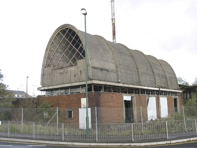 Dunlop Semtex Site, Brynmawr Part of the former Dunlop Semtex rubber factory. Main buildings demolished in June 2001 to make way for new development. This one due to be demolished.